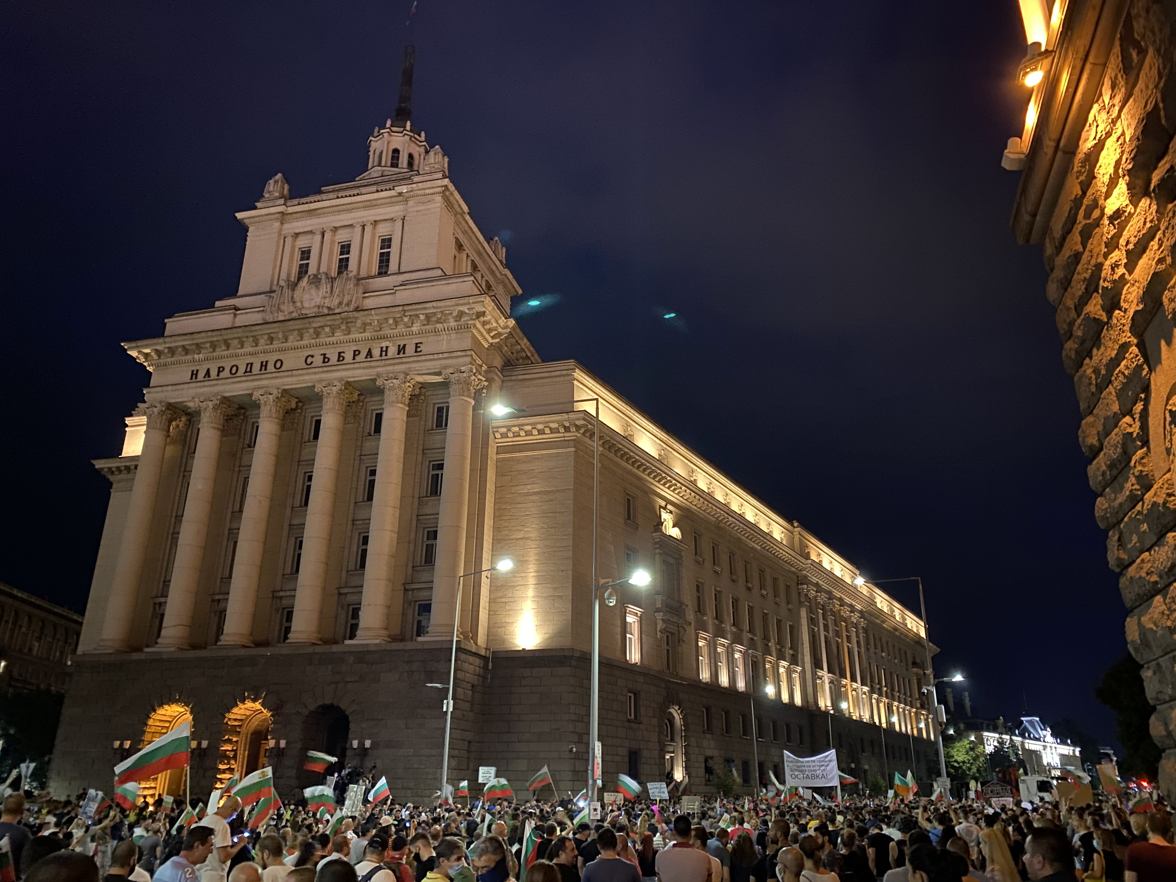 2020 Bulgarian protests next to the Party House, the office house of the National Assembly (Sofia, Bulgaria)